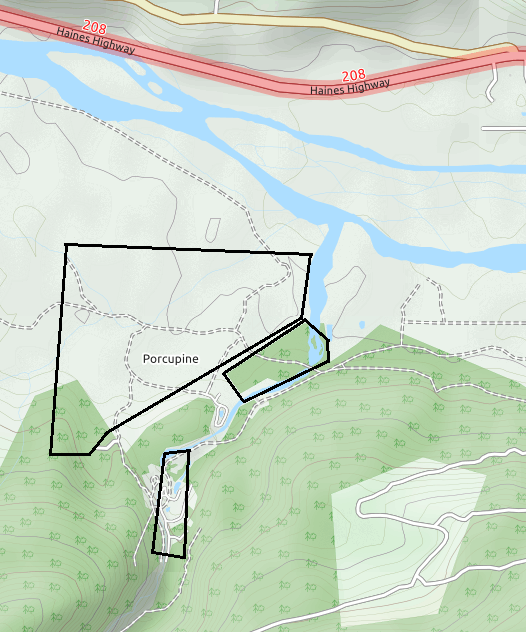 Map showing the boundaries of the Ester Camp Historic District in Alaska, United States. The historic district is listed on the National Register of Historic Places. Boundaries are derived from the map attached to the district's National Register nomination form.